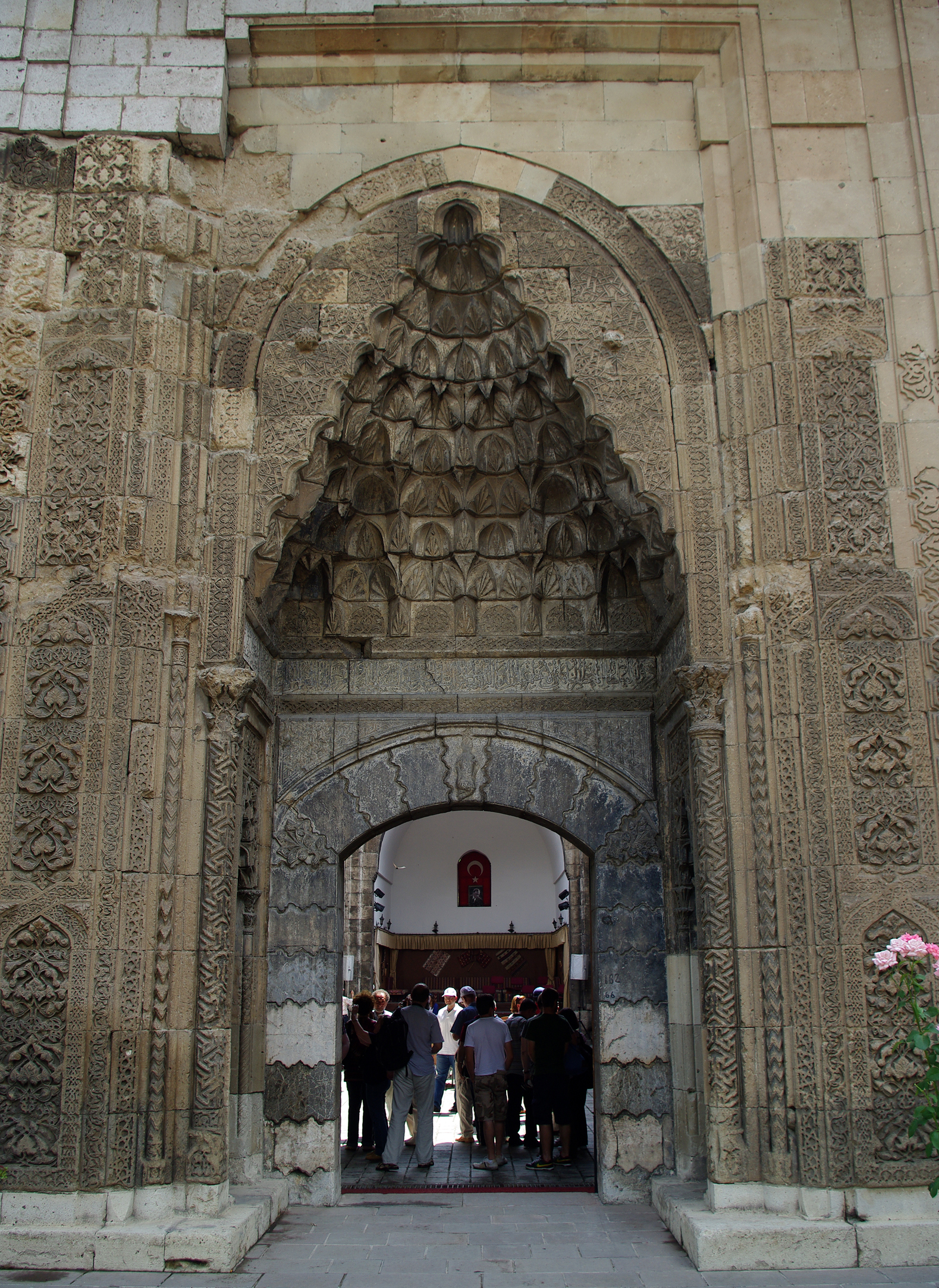 1309'da İlhanlı Sultanı Olcaytu'nın karısı İlduş Hatun tarafından bir akıl hastanesi olarak inşa ettirilmiştir. Zihinsel hastalıkları müzik yoluyla tedavi etmek için ilk kullanılan yerdir. Selçuklu Medresesi tarzı mimariye sahiptir.